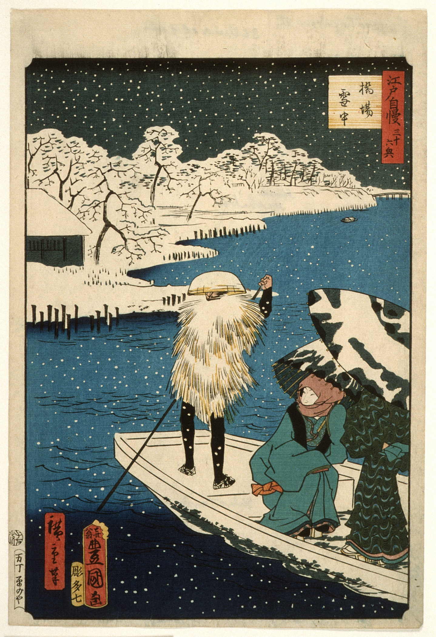 Japan, 1864, 2nd month Series: Thirty-six Places of Interest in Edo Prints; woodcuts Color woodblock print Image: 13 x 9 5/16 in. (33.0 x 23.7 cm); Paper: 14 1/4 x 9 11/16 in. (36.2 x 24.7 cm) Los Angeles County Fund (16.14.139) Japanese Art